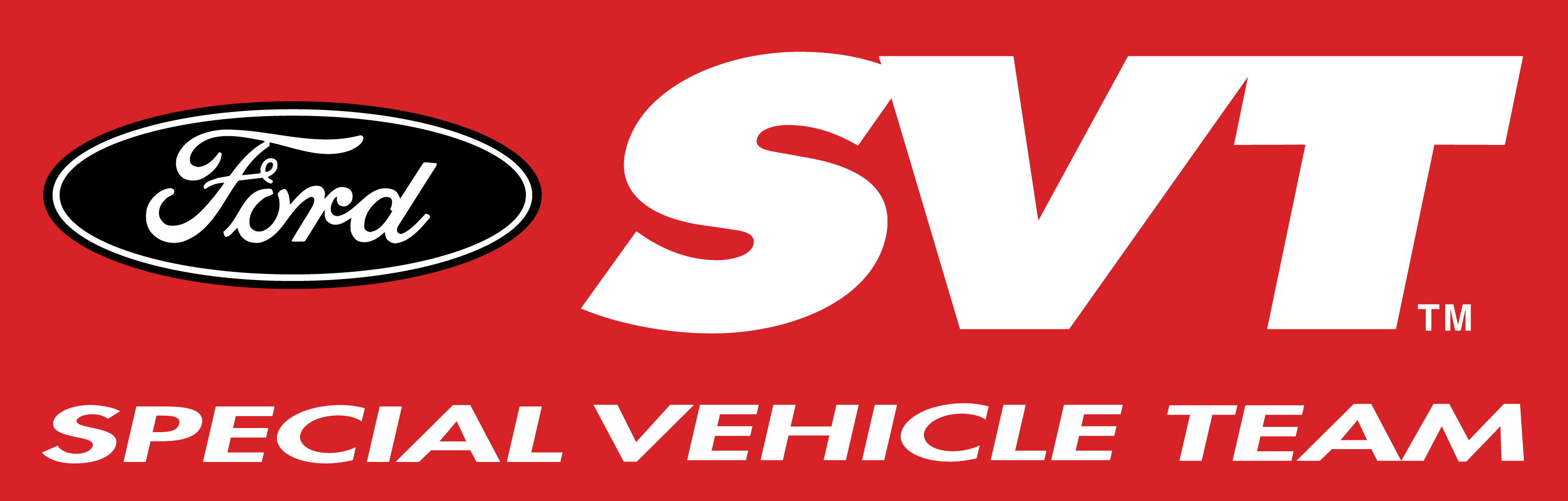 Logo of the Ford Special Vehicle Team